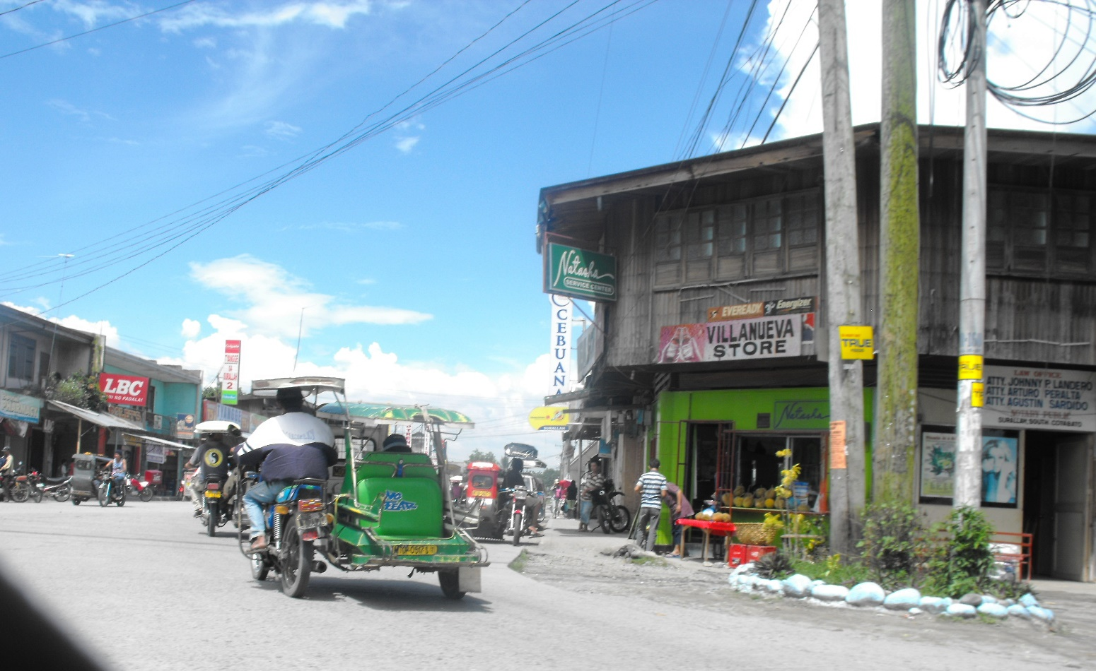 Public Market Direction, Surallah, South Cotabato